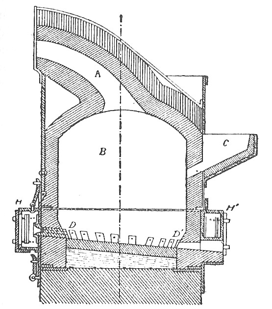 Swedish Bessemer converter